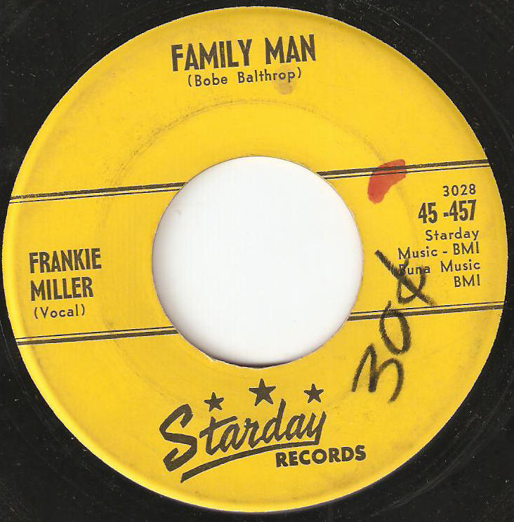 Family Man by Frankie Miller, Starday 1959.